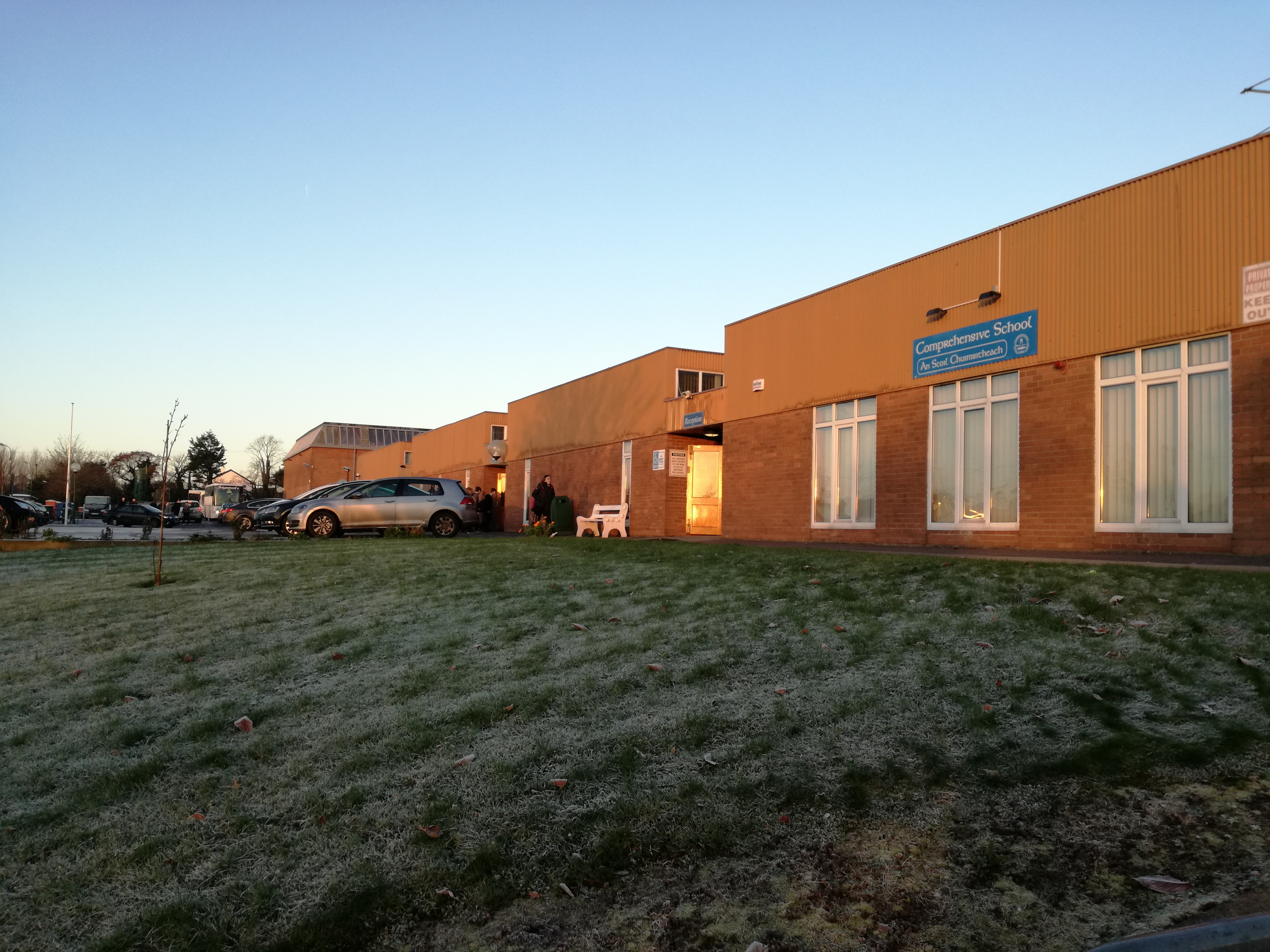 Tarbert Comprehensive School, County Kerry